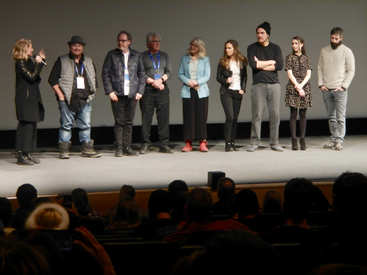 Sundance 2018, Park City UT